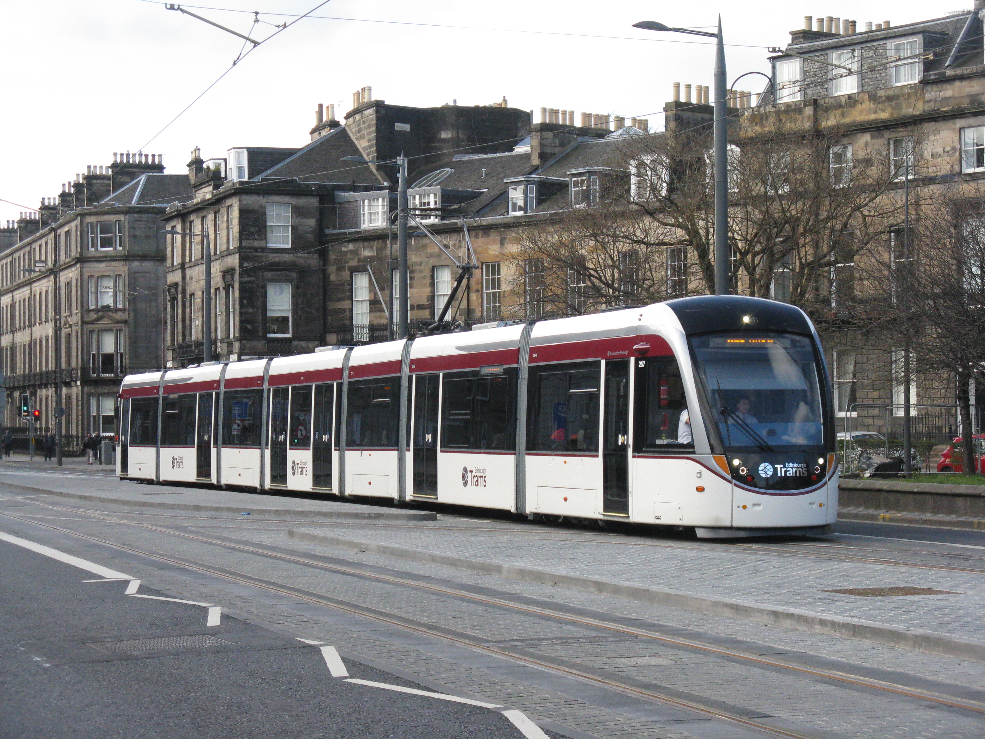 Shandwick Place